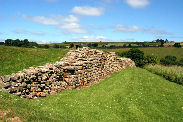 Vindolanda Roman Fort World Heritage Site, the fort's south wall.